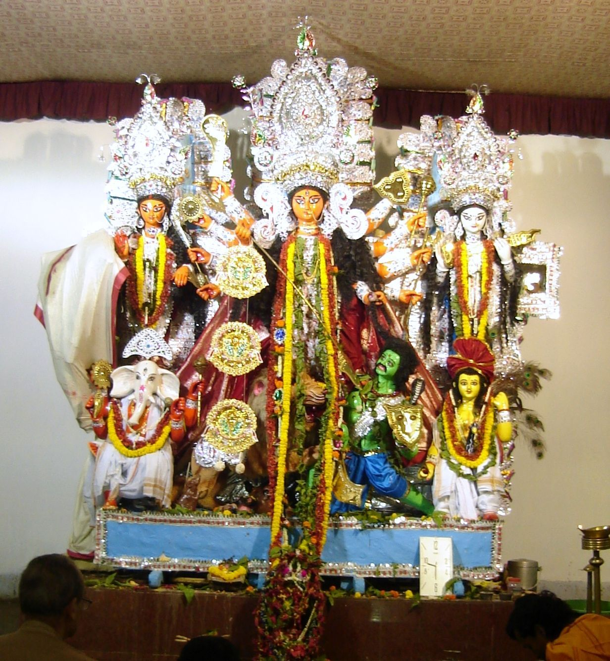 Durga Puja at Sabarana Atchala, Barisha.